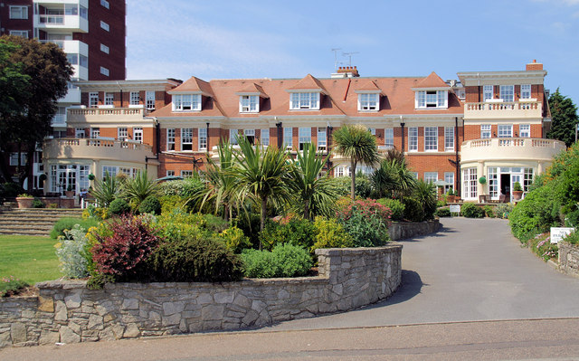 Hotel Miramar, Bournemouth A hotel in East Overcliff Drive.